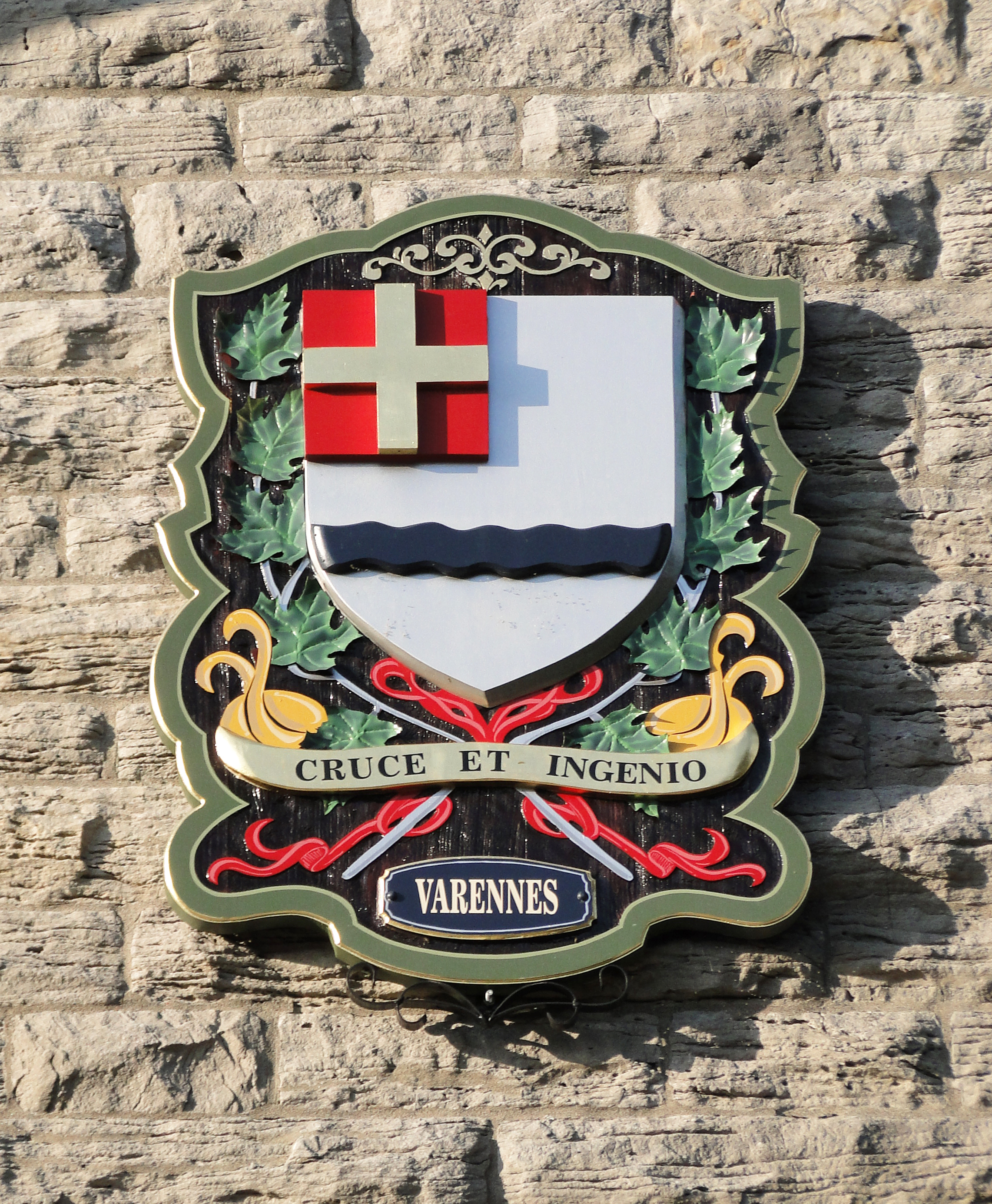 Coats of arms of the city of Varennes on the facade of Basilica of Sainte-Anne, Varennes, province of Quebec, Canada